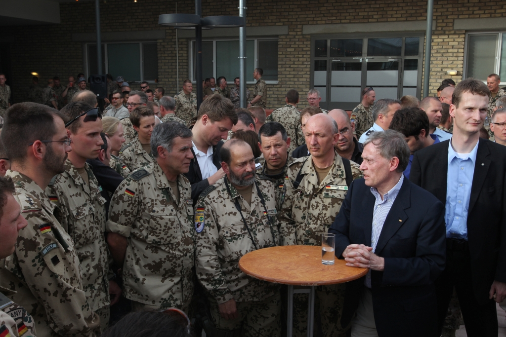 The following is the author's description of the photograph quoted directly from the photograph's Flickr page. "Federal President Horst Kohler talks with the troops at Camp Marmal, Mazar-e-Sharif Afghanistan, May 22, 2010. (Photo by ISAF Public Affairs) "